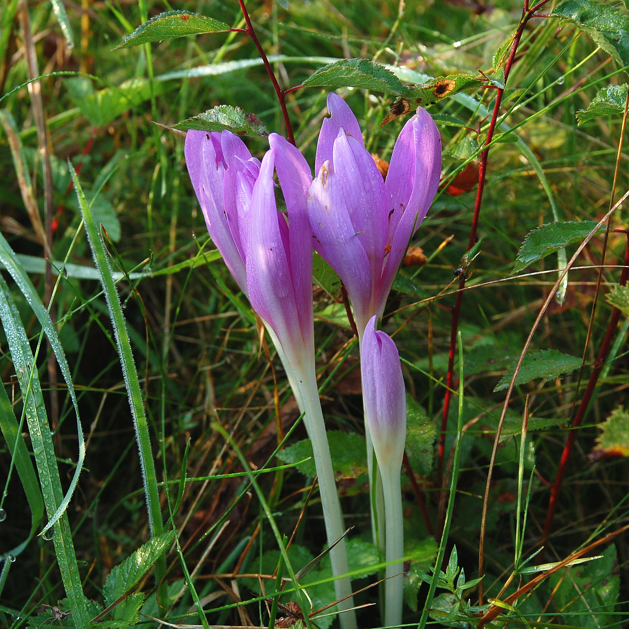 Colchicum autumnale autumn crocus, meadow saffron or naked lady In Belgium natural reserve Marie Mouchon.